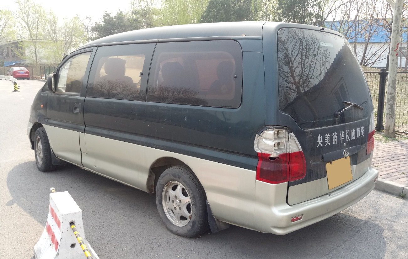 Baolong MPV photographed in Beijing, China.